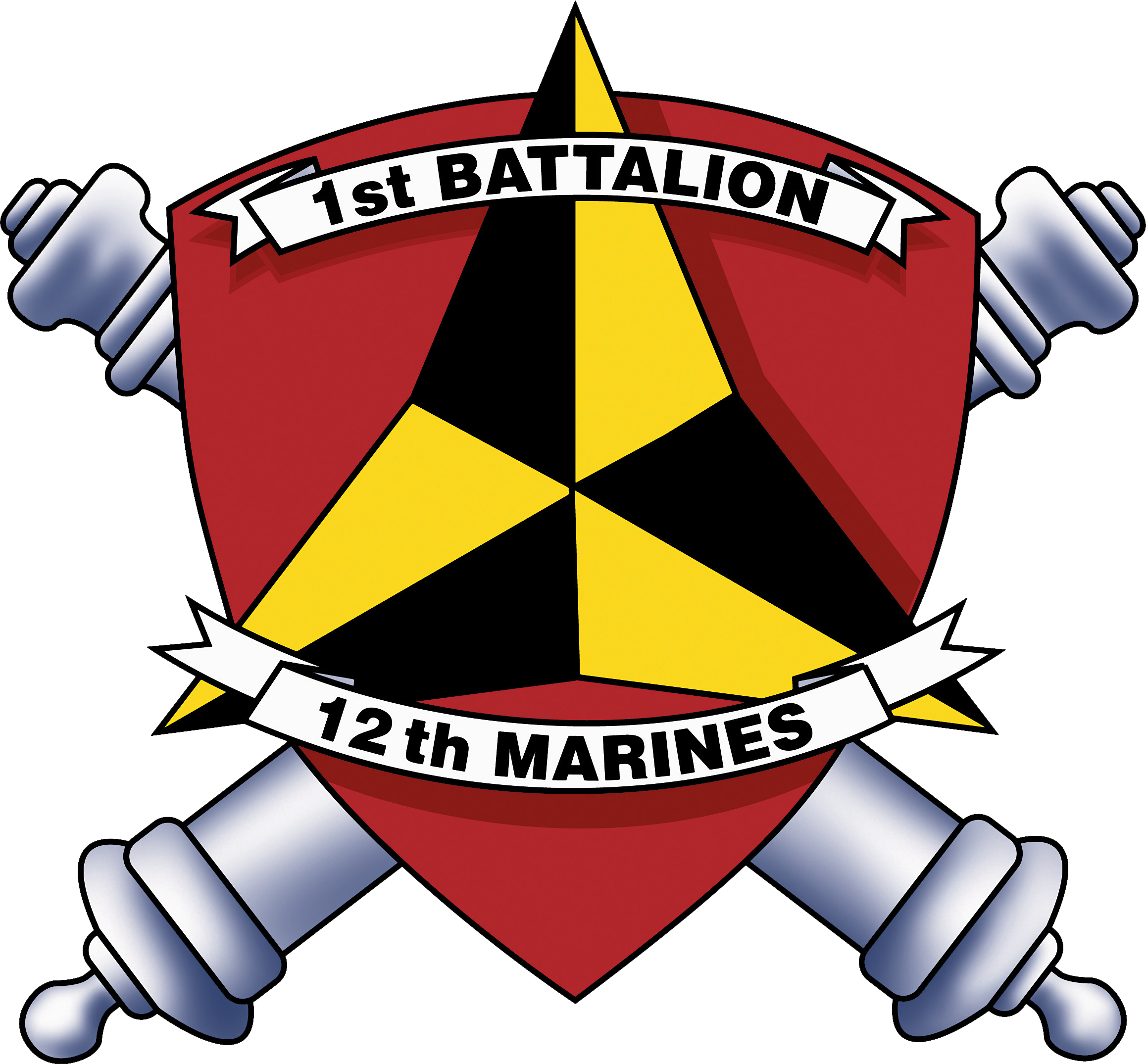 United States Marine Corps 1st Battalion 12th Marines insignia. Made with Photoshop.